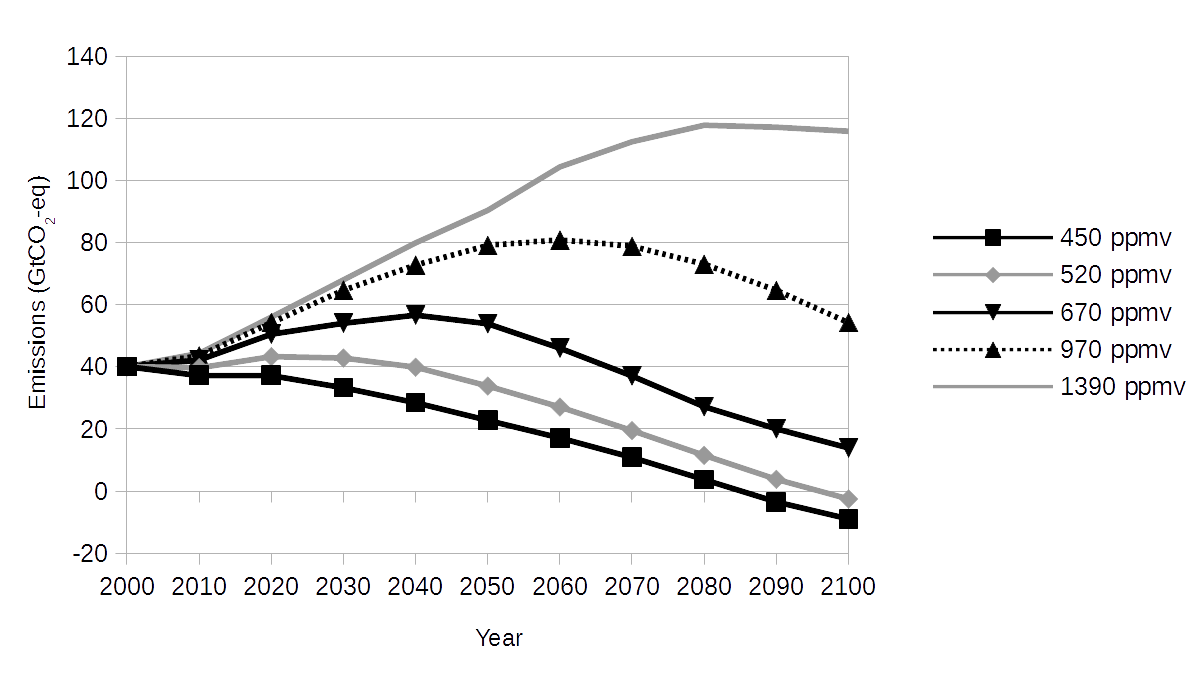 This graph shows projected changes in annual human greenhouse gas (GHG) emissions between the years 2000 and 2100 for a range of climate change mitigation scenarios. Emissions are measured in billion tonnes of carbon dioxide-equivalent (GtCO2-eq). Projections for 5 scenarios are shown. Each scenario is designed to stabilize atmospheric GHG concentrations at a different level: 450, 520, 670, 970 and 1390 ppmv. A summary table of the graph data is given in a later section. In the scenarios, global emissions peak then decline. Emissions peak sooner in the century for the lower stabilization scenarios. References The full set of emissions data can be freely downloaded from: International Institute for Applied System Analysis (IIASA) GGI Scenario Database Ver 2.0, 2009. Archived 4 October 2013. These are the "A2r" mitigation scenarios. The global warming potentials used for the non-CO2 greenhouse gases are: 21 (CH4), 310 (N2O), 6500 (PFC), 23900 (SF6) and 1300 (HFC).